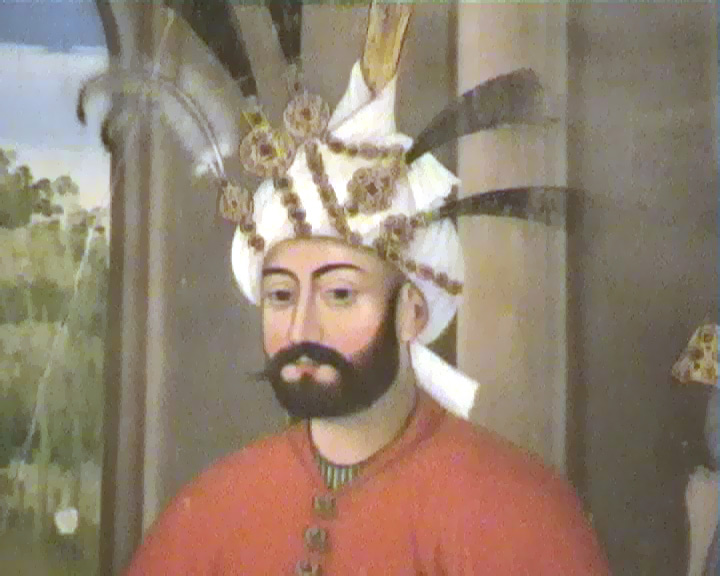 Tahmasb 1 - safavid king - Chehelsoton painting - Isfahan